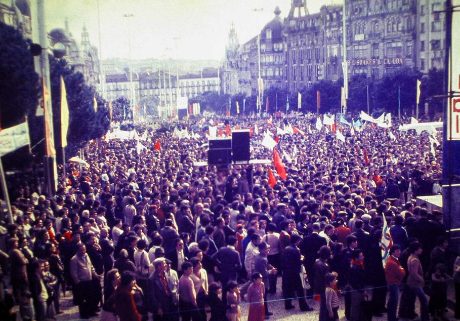 PCP/APU, a demonstration in Oporto in September, 1982